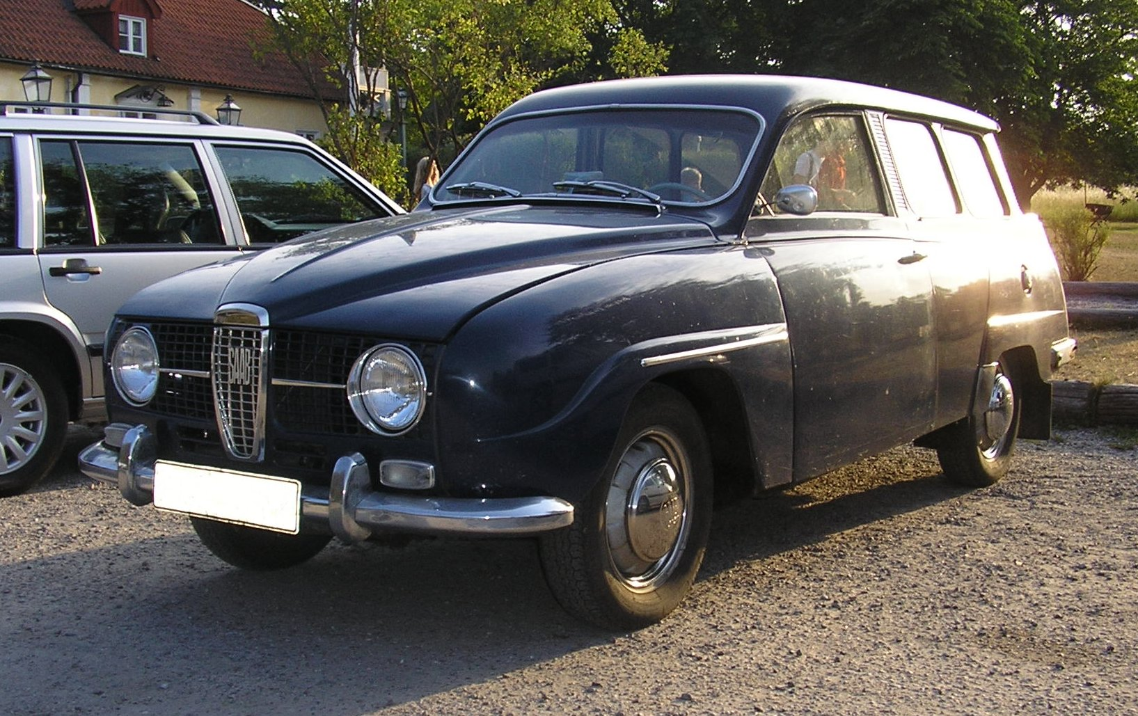 1965 SAAB station wagon. Photographed by myself at Brostugan outside Stockholm.